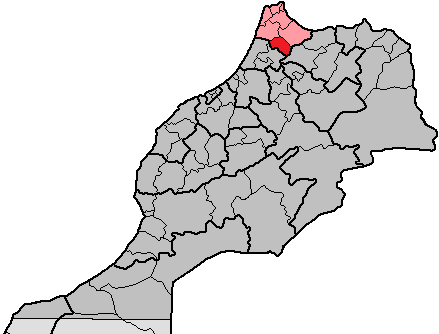 Location of the province Ouezzane within the region Tanger-Tétouan, Morocco. In total, Morocco has 16 regions, subdivided into 62 provinces and 13 prefectures.